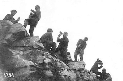 The prisoners' labour at the Belomorkanal construction site